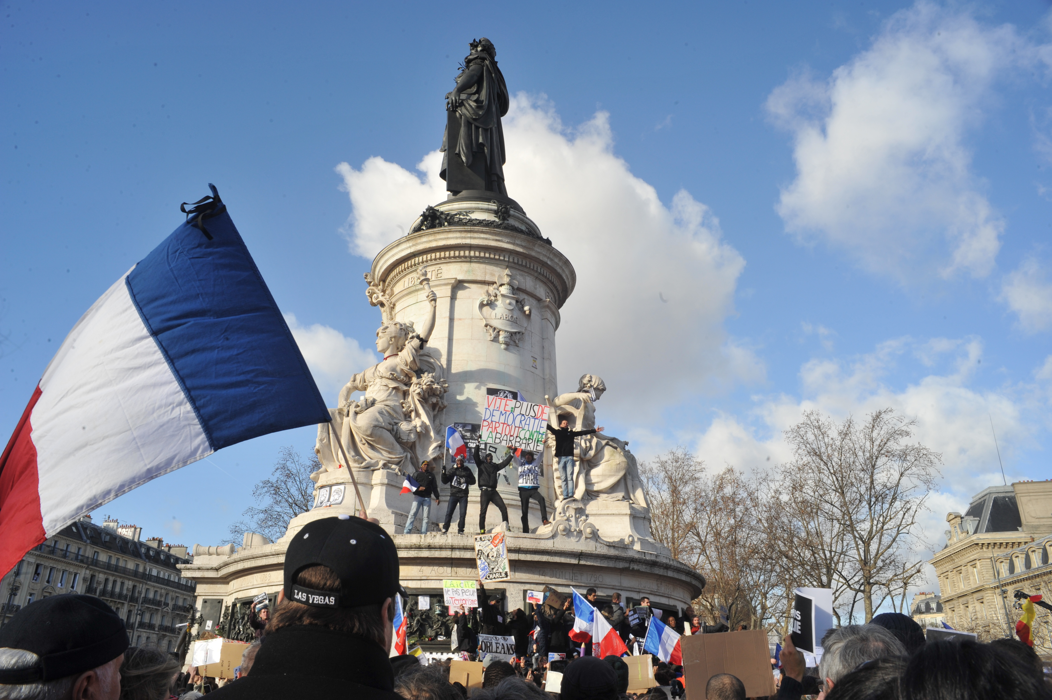 Paris rally in support of the victims of the 2015 Charlie Hebdo shooting, 11 January 2015.